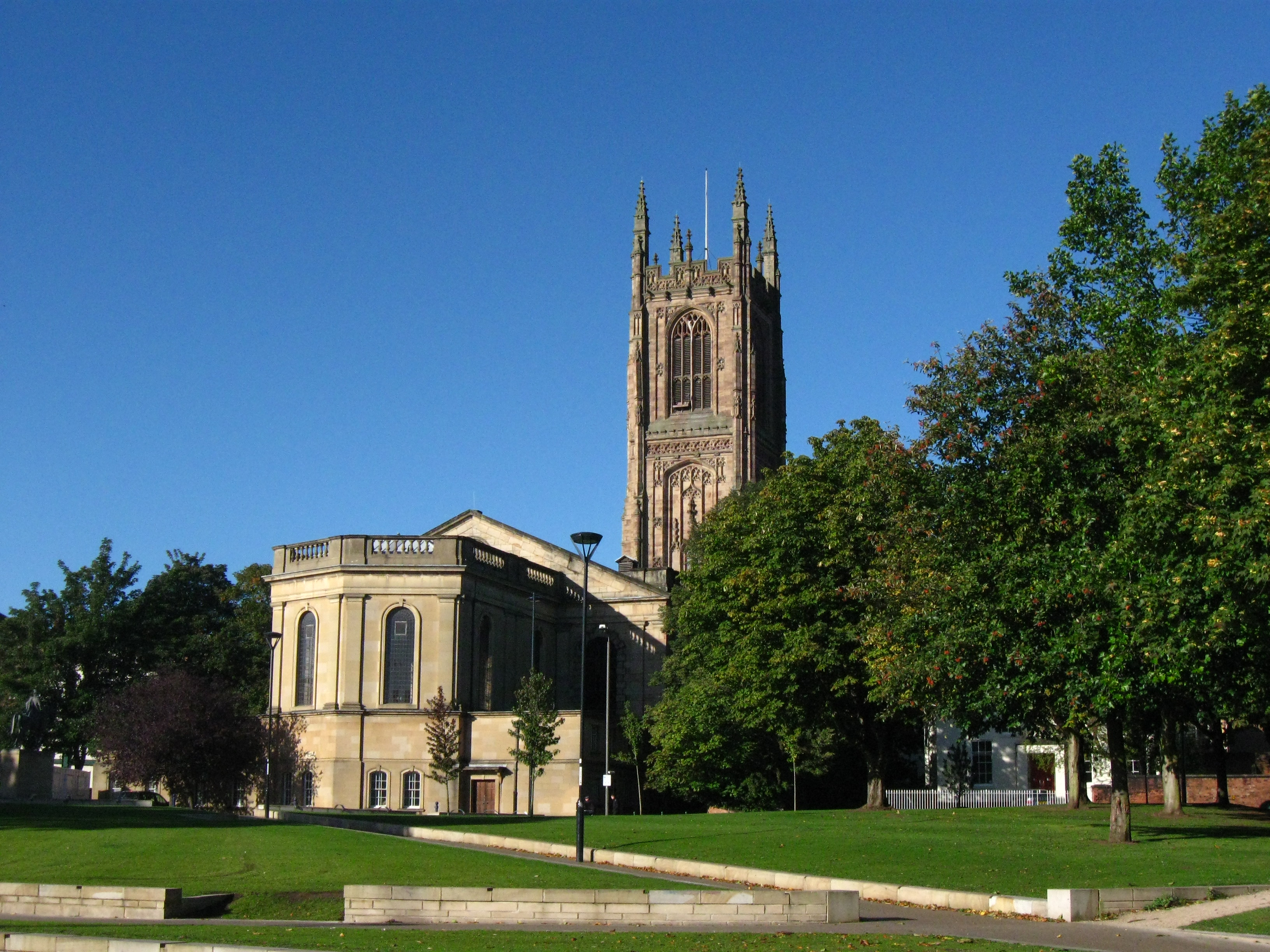 View of Derby Cathedral, England, looking west from Cathedral Green. The 65m high tower dates from the 1530s, the nave from 1725 and the retrochoir from the 1970s. The latter is made from artificial sandstone, whereas the nave and tower are of Derbyshire Millstone Grit. A peregrine falcon nest platform is just visible in lower left corner of bell tower louvres. Cathedral Green was redeveloped and opened as a new public open space in 2009. A statue of Bonnie Prince Cahrlie on horseback is visible in the extreme left of the image